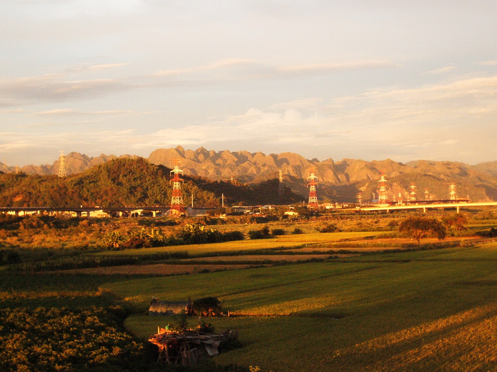 Jiujiufong in Caotun Township,Nantou County,Taiwan.